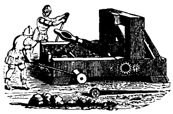 Catapult